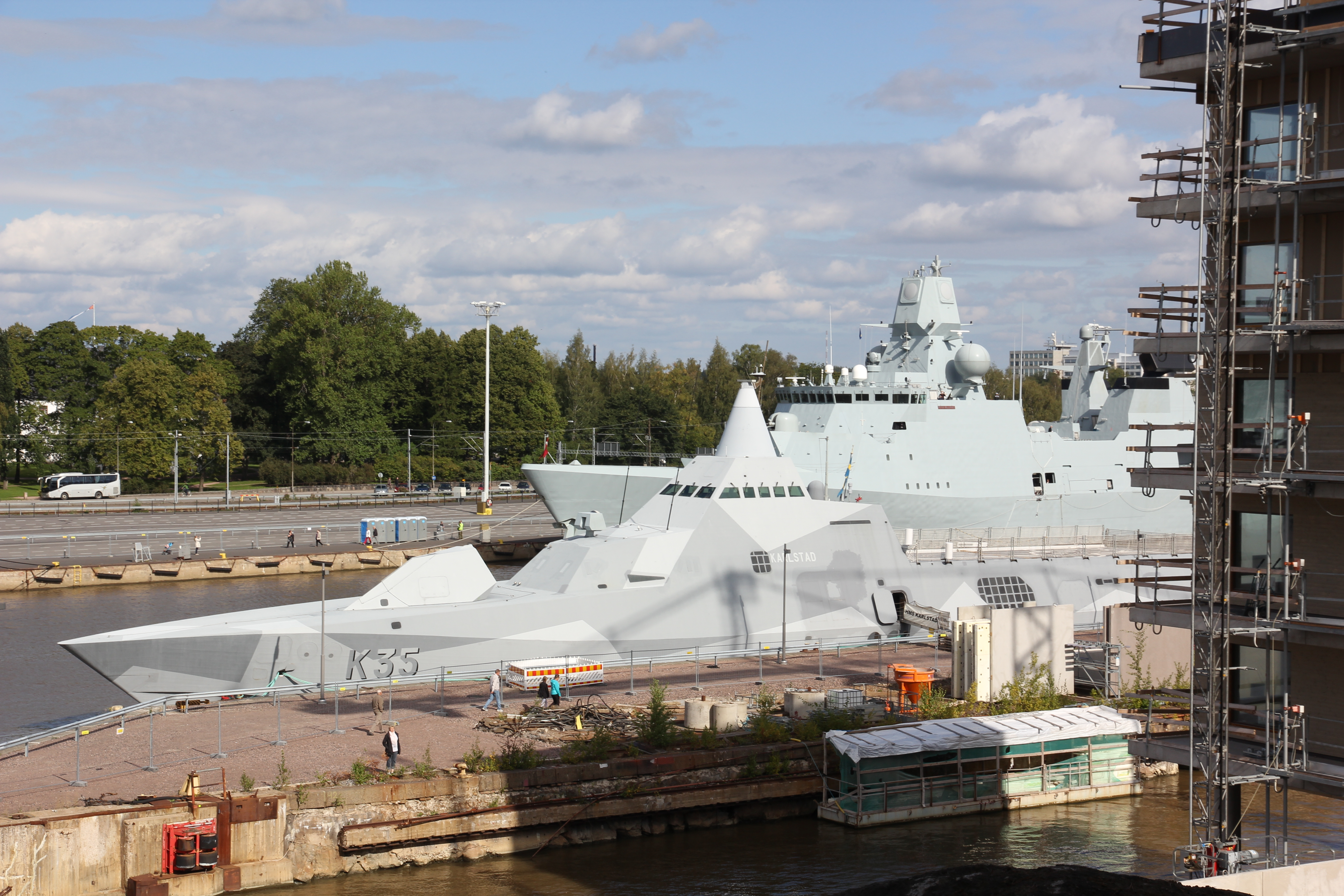 Swedish Visby class corvette Karlstad (K35) in Aura river in Turku during the Northern Coasts 2014 exercise public pre sail event. On the opposite shore is Danish Iver Huitfeldt-class frigate Peter Willemoes (F362).